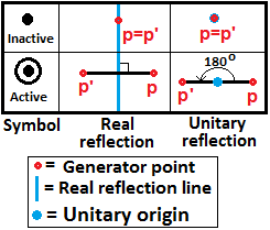 Coxeter diagram rank 1, active (ringed) and inactive (unringed), for real and unitary reflections